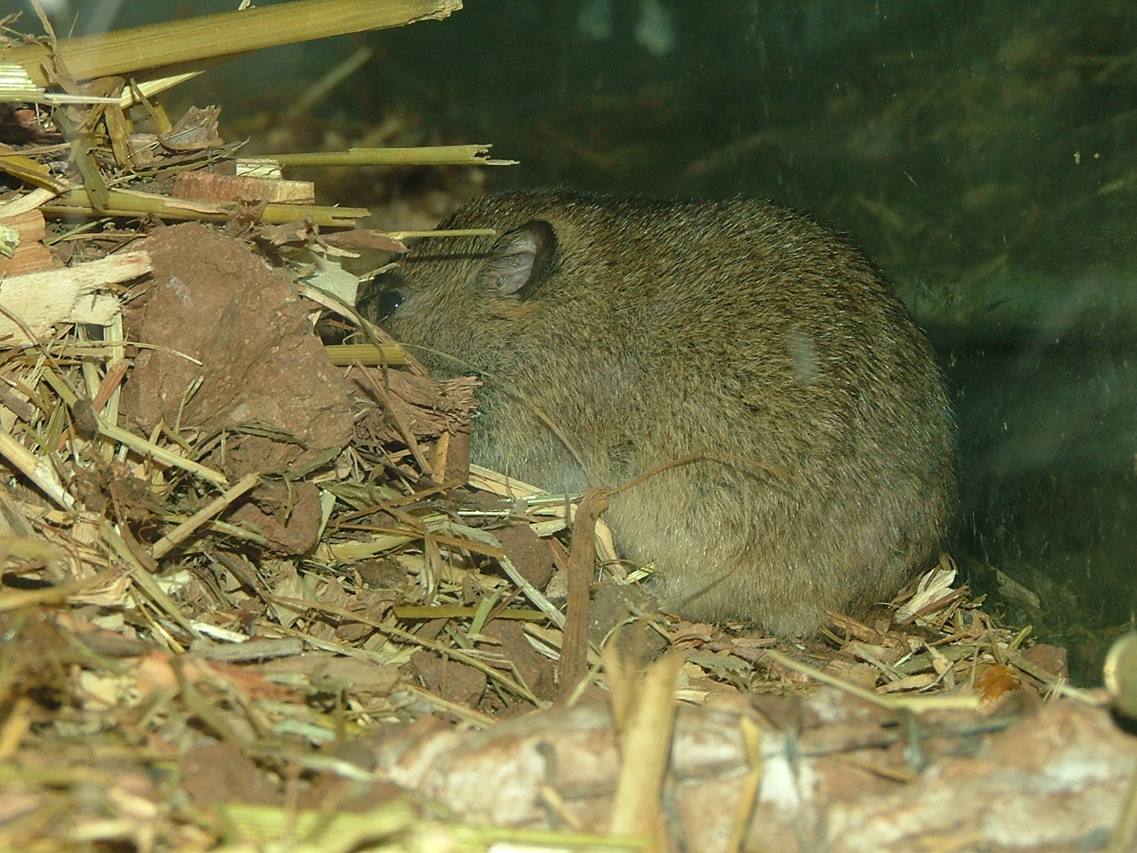 A Levant vole (Microtus guentheri) at the Jerusalem Biblical Zoo.